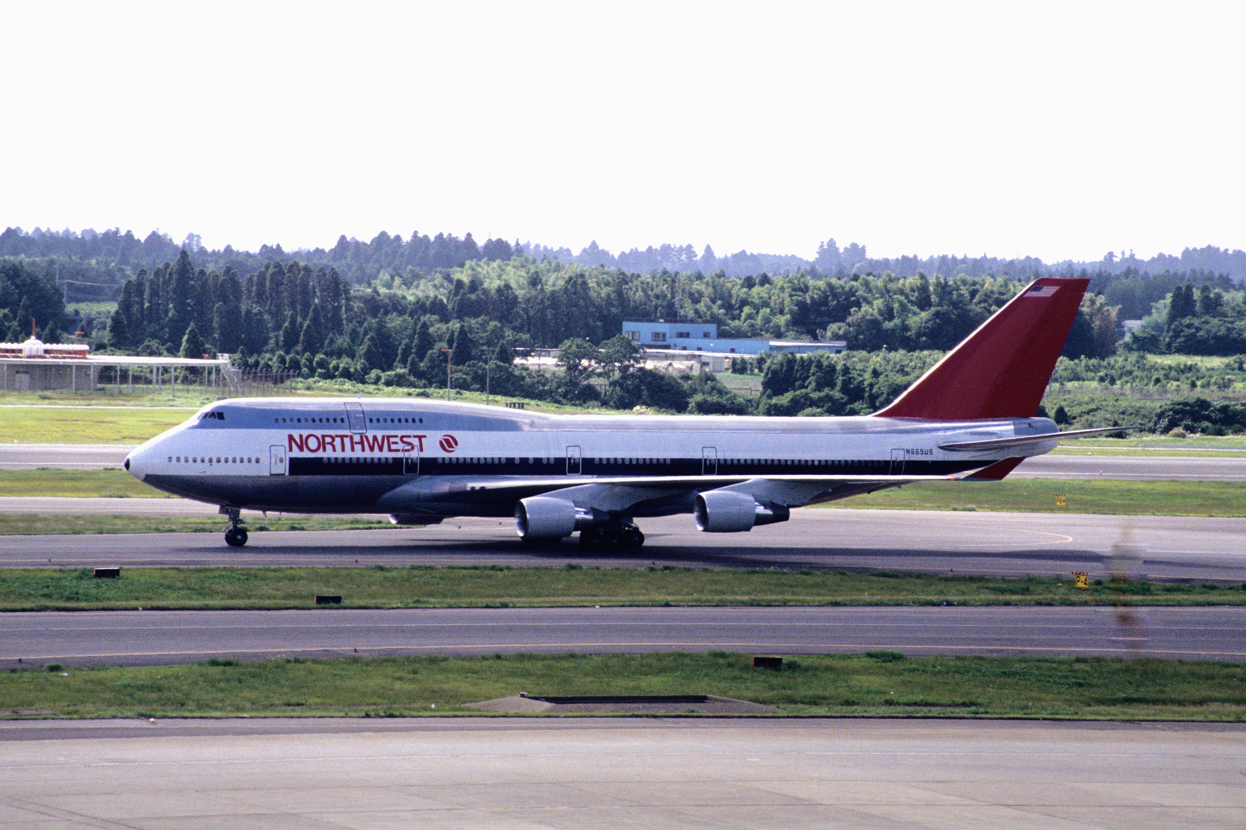 Old Pictures